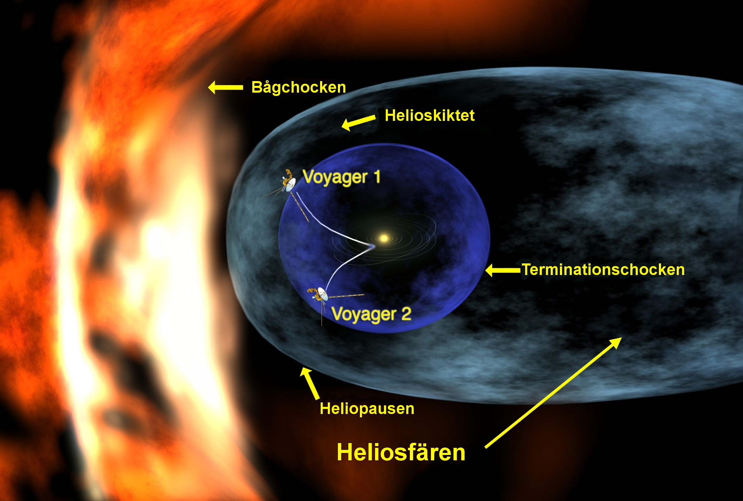 This still shows the locations of Voyagers 1 and 2. Voyager 1 is traveling a lot and has crossed into the heliosheath, the region where interstellar gas and solar wind start to mix.